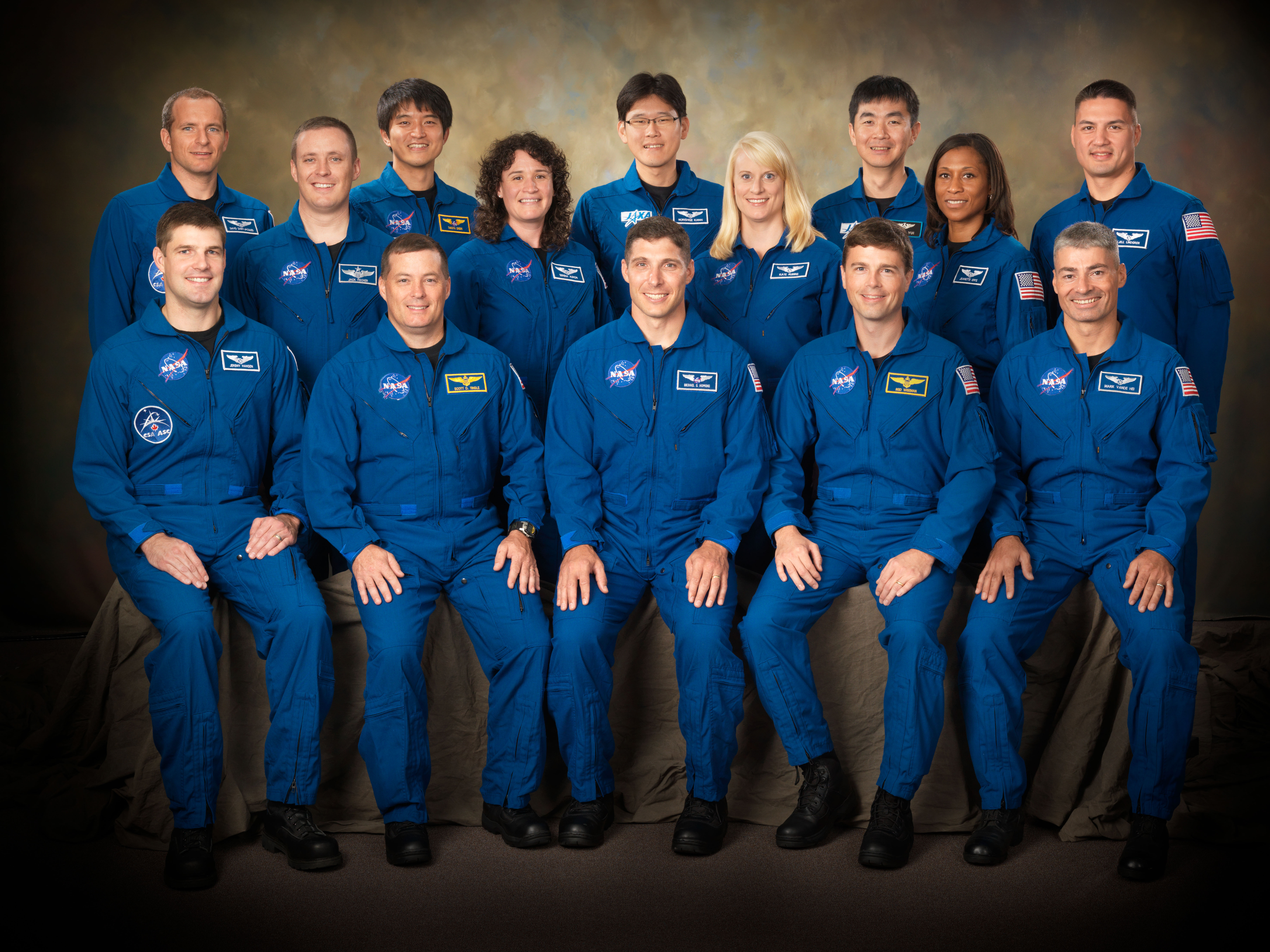 The 14-member 2009 class of NASA astronauts, Japan Aerospace Exploration Agency (JAXA) astronauts and Canadian Space Agency astronauts take a break from training to pose for their group portrait at NASA's Johnson Space Center. Pictured from the left (front row) are Jeremy Hansen, Scott D. Tingle, Michael S. Hopkins, Gregory R. (Reid) Wiseman and Mark T. Vande Hei. Pictured from the left (middle row) are Jack D. Fischer, Serena M. Aunon, Kathleen (Kate) Rubins and Jeanette J. Epps. Pictured from the left (back row) are David Saint-Jacques, Takuya Onishi, Norishige Kanai, Kimiya Yui and Kjell N. Lindgren.